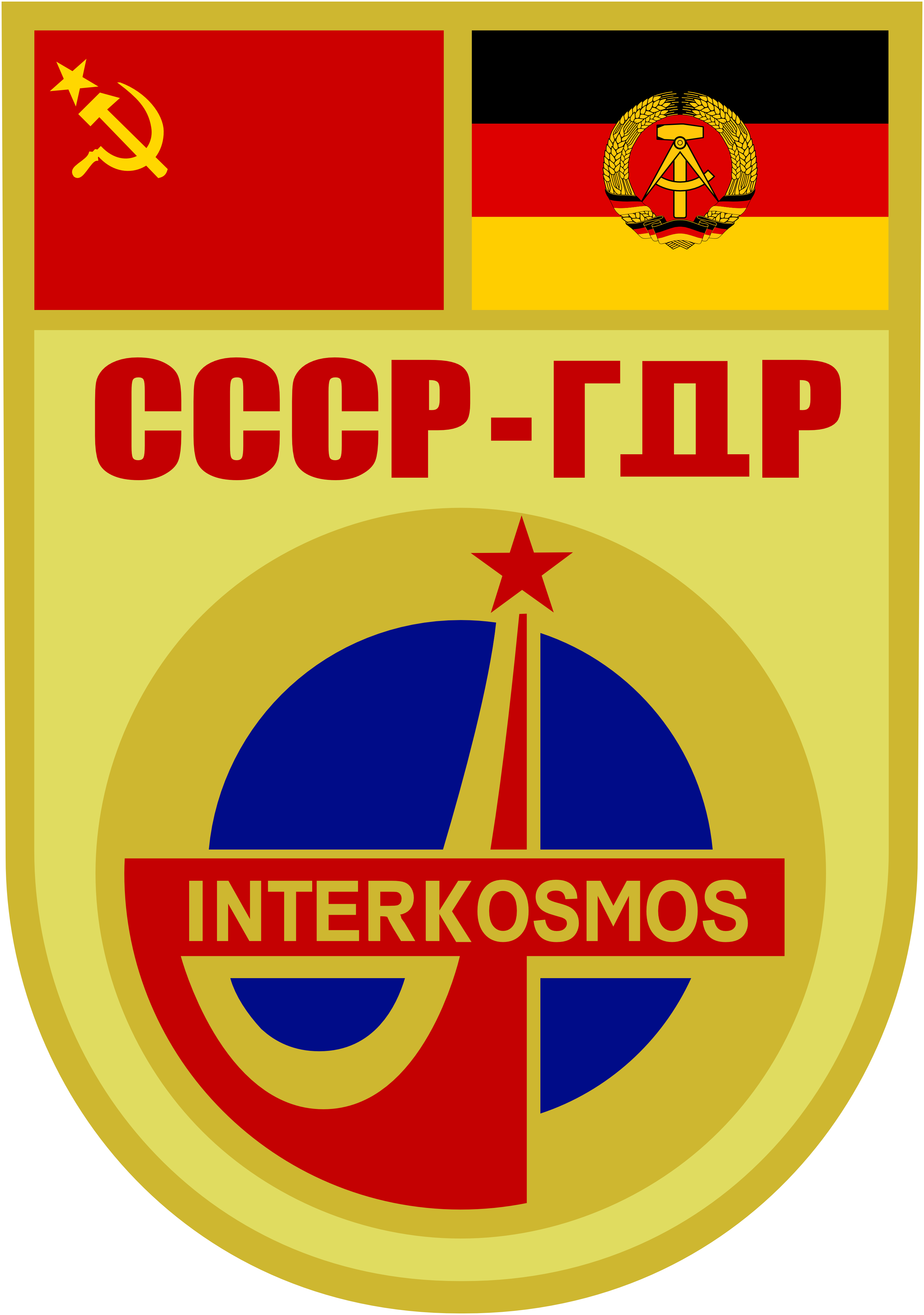 Soyuz 31 patch